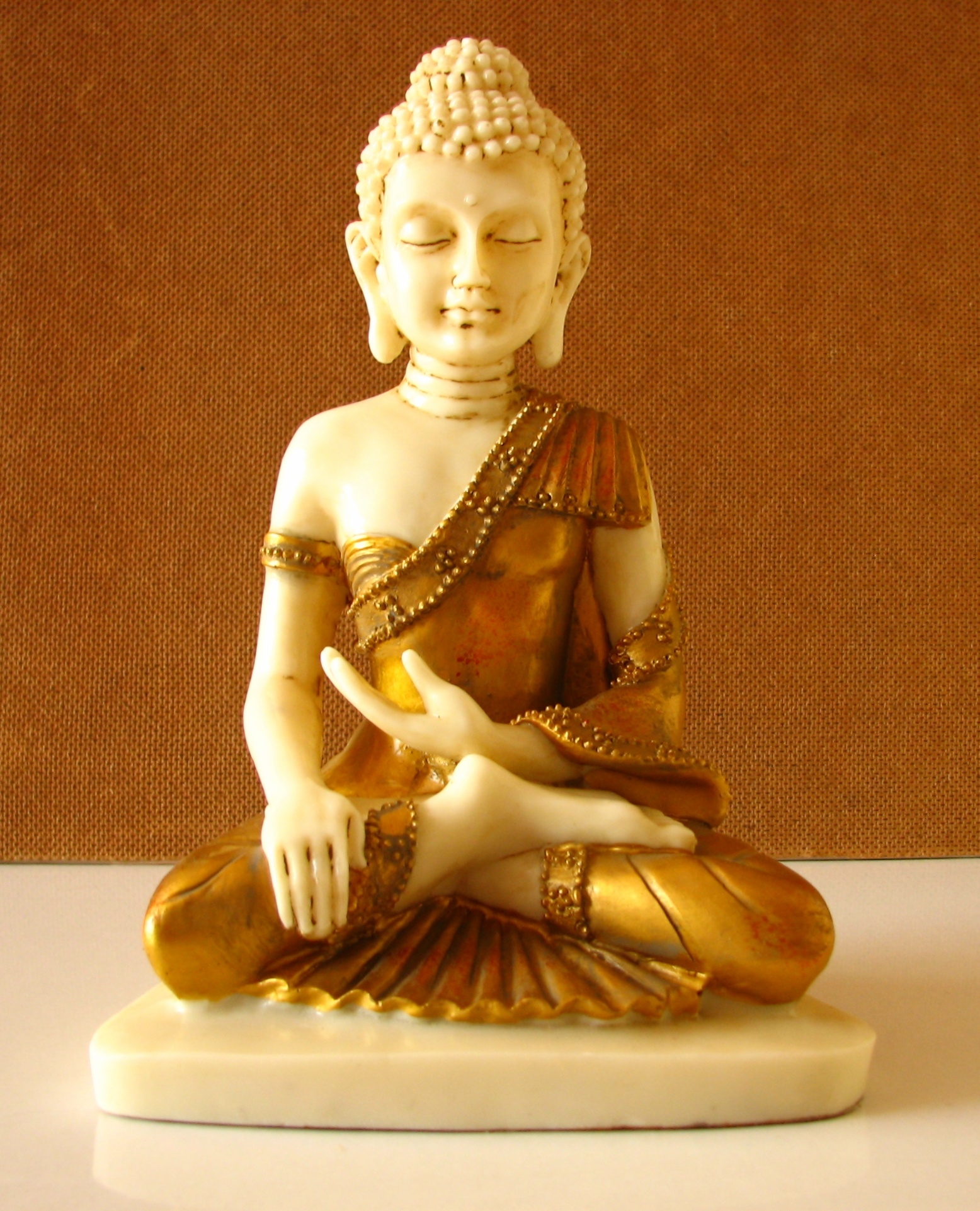 "A little statue of Buddha."